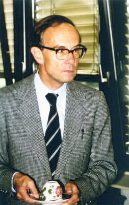 Friedrich Hirzebruch, German mathematician, in Dortmund